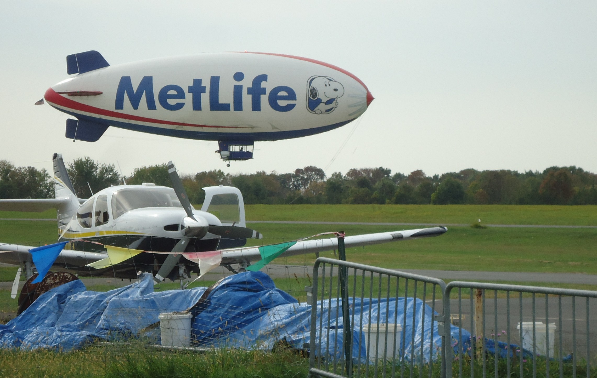 Blimp making practice landing runs at local airport in New Jersey.